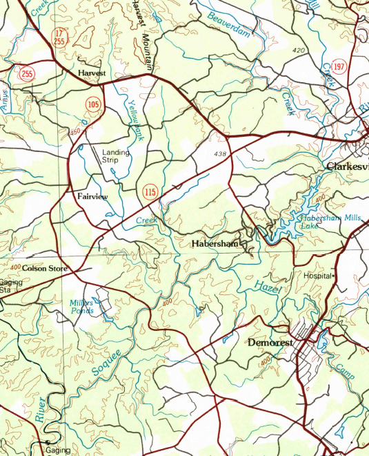 HUC 031300010206 topographical map, using the 1981 Toccoa 30x60 grid, showing Yellowbank Creek and the Soque River